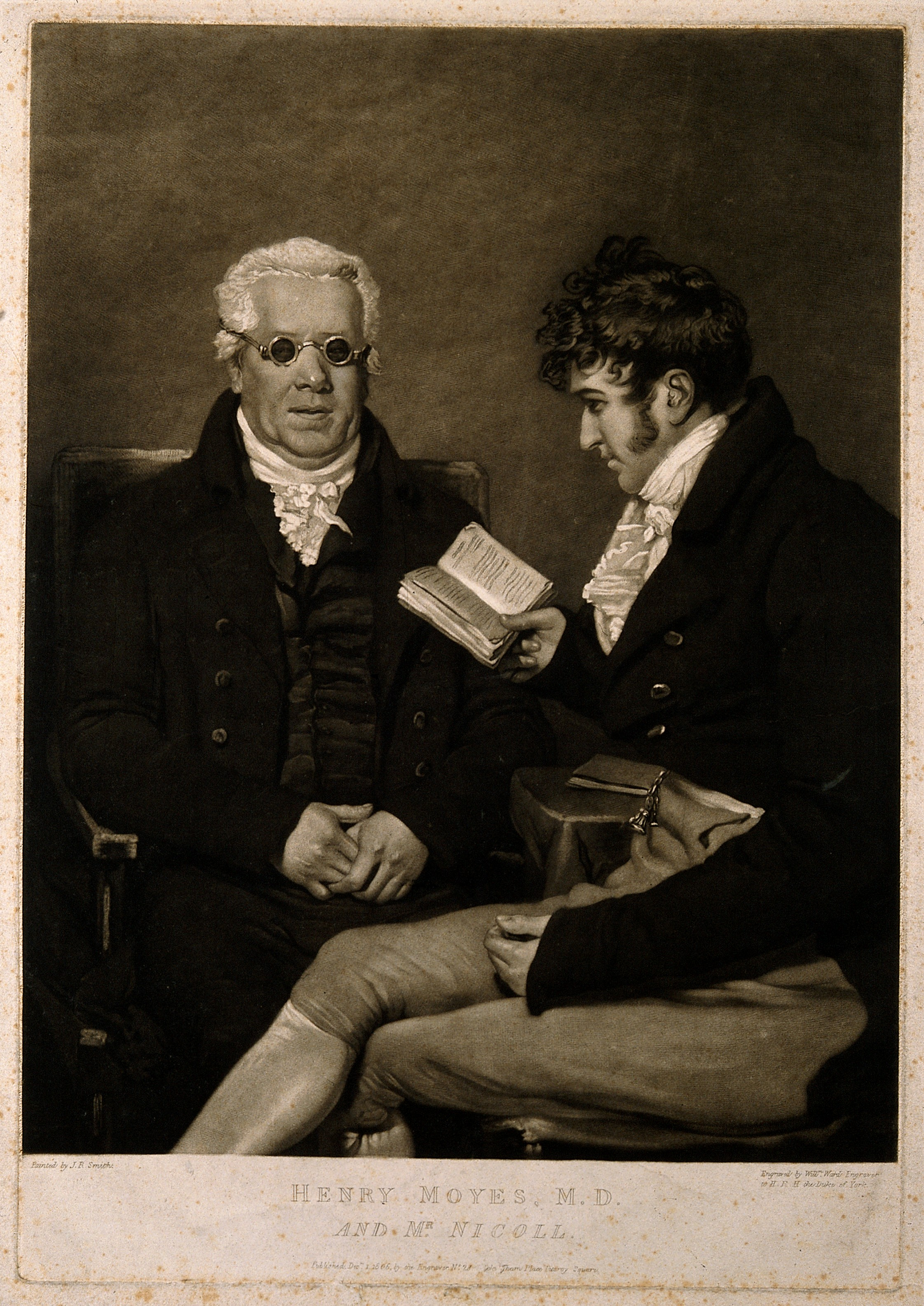 Henry Moyes and Mr. Nicoll. Mezzotint by W. Ward, 1806, after J. R. Smith. Iconographic Collections Keywords: John Raphael Smith; portrait prints; William Nicol; mezzotints; Henry Moyes; William Ward